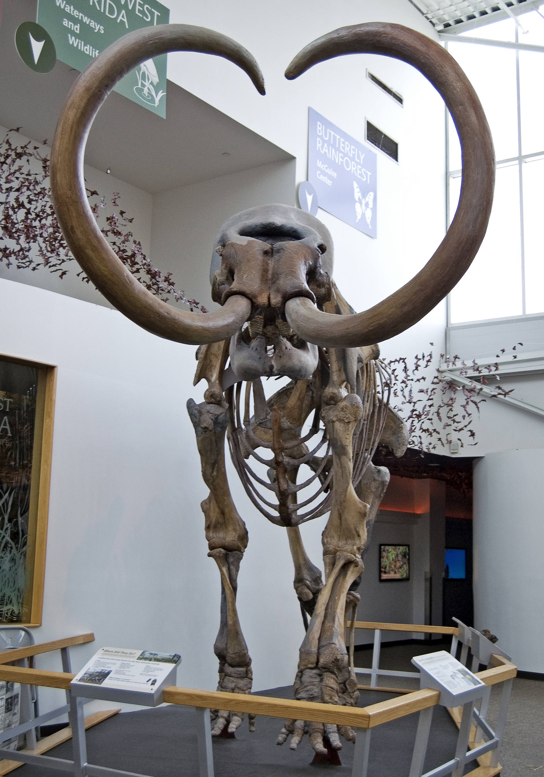 A Columbian Mammoth skeleton ("Aucilla mammoth" specimen). Florida Museum of Natural History, Gainesville, Florida.